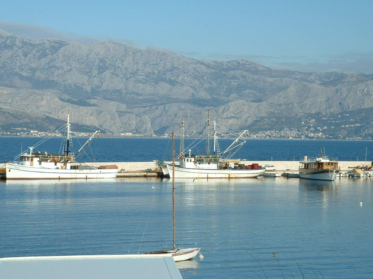 Postira, Brač, Croatia